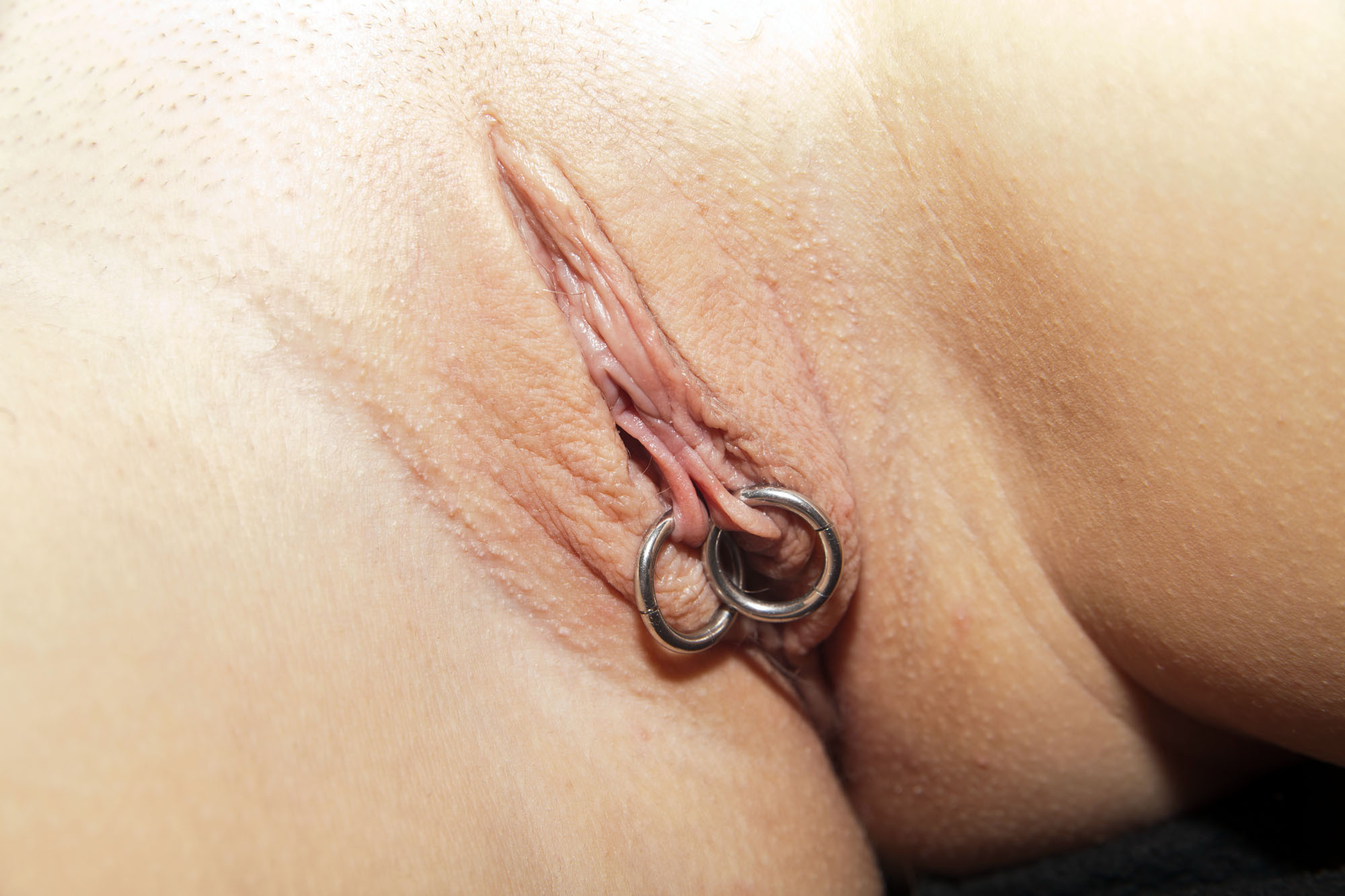 Inner Labia Piercings: Segment rings